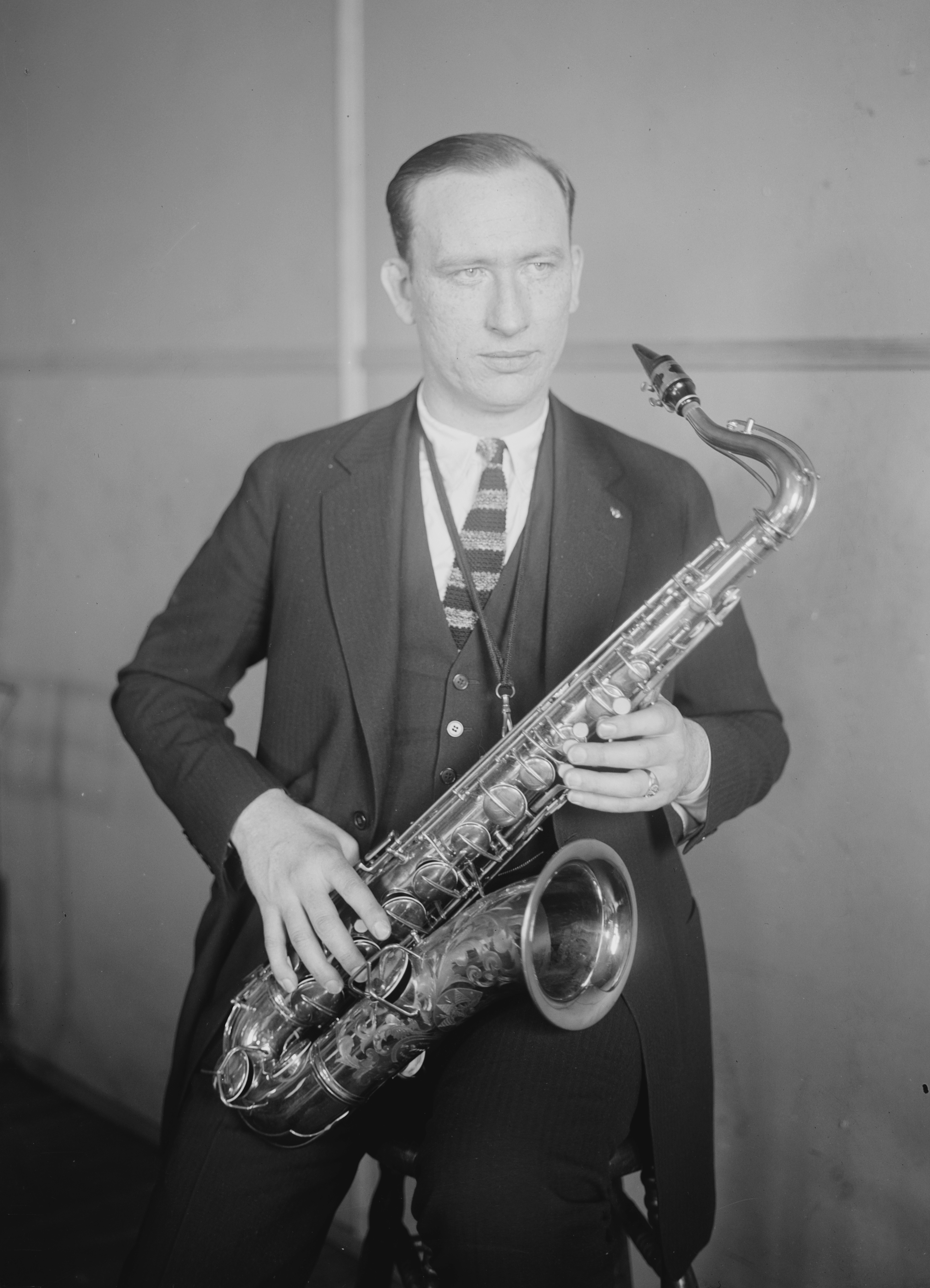 Isham Jones with saxophone.